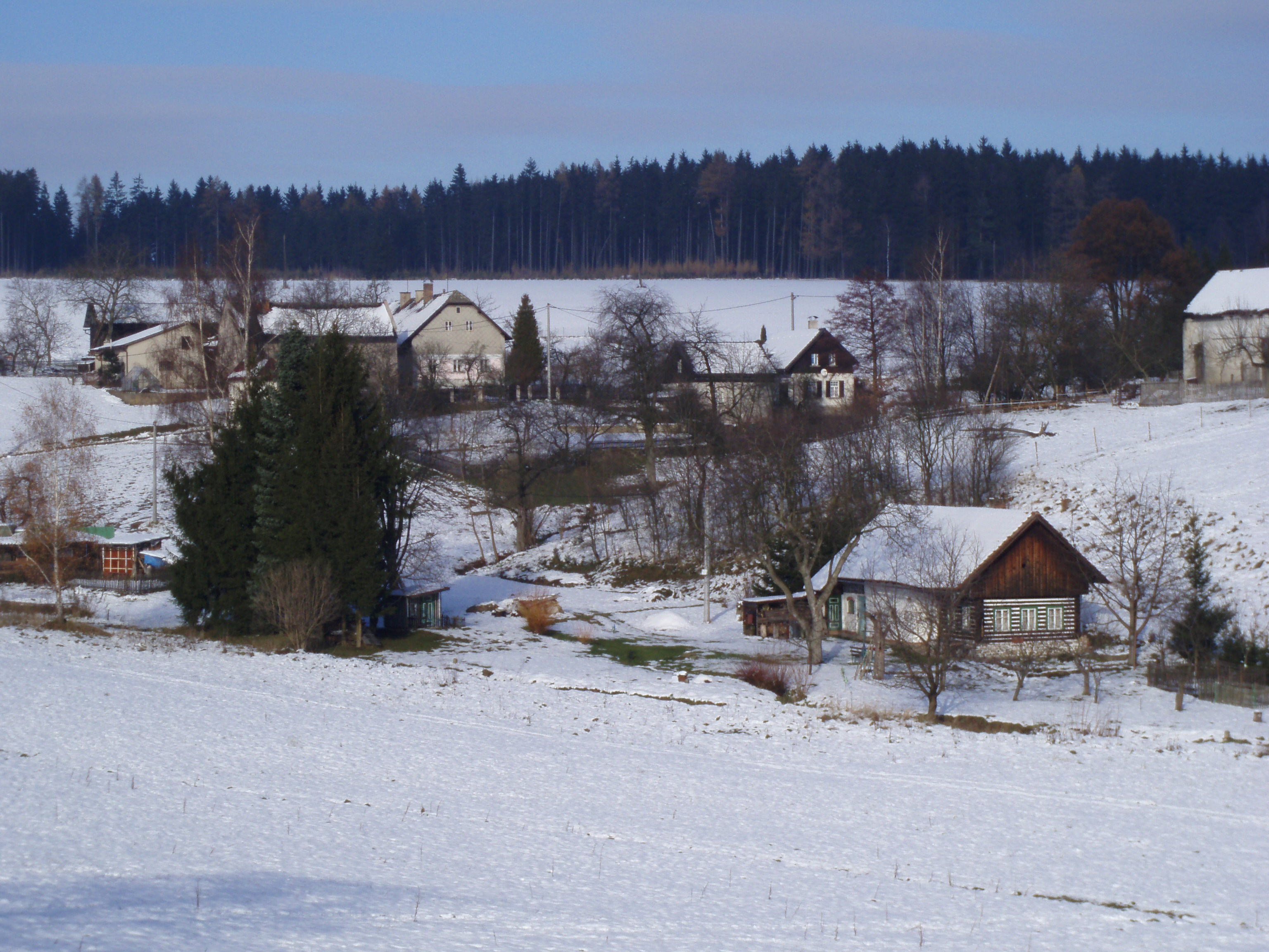 Mečov in winter (Hořičky, Czech Republic)